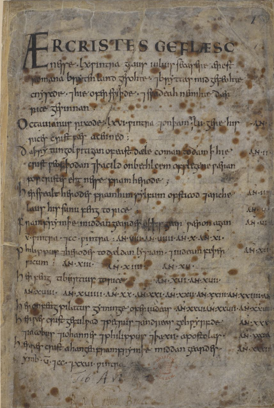 British Library MS Cotton Tiberius A VI, f. 1r